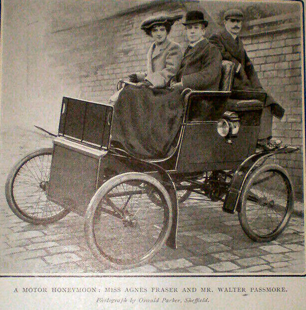 The newly-weds Agnes Fraser and Walter Passmore in their motorcar - The Man On The Car' - The Sketch, 26 November 1902, p. 235